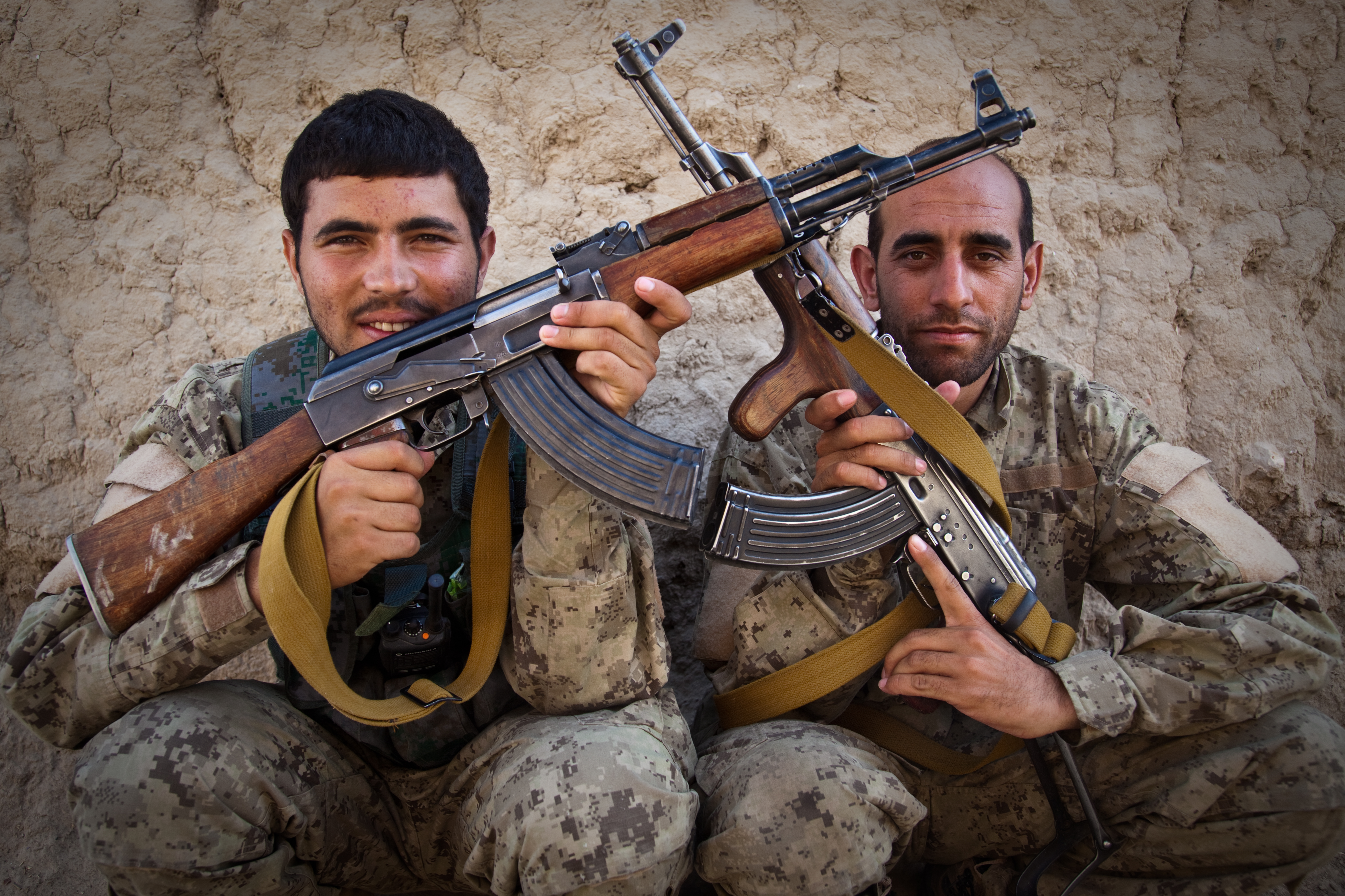 Two Afghan National Civil Order Police officers cross their weapons for a photograph during a mission led by U.S. Army soldiers assigned to Delta Company, 1st Battalion, 22nd Infantry Regiment, 1st Brigade, 4th Infantry Division, to patrol Malajat, Afghanistan, on June 4. The purpose of the mission is to gather atmospherics from the local population and to distribute Psychological Operations products.